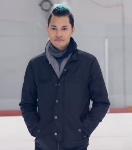 As if singing, dancing, and acting weren’t enough, Zach Villa is also a skating prodigy. We talk about his starring role on American Horror Story and balancing life as a triple threat.